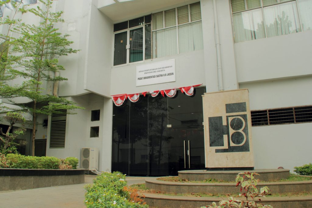 This is the main entrance into PDS HB Jassin in Taman Ismail Marzuki, Centre of Jakarta, Indonesia.